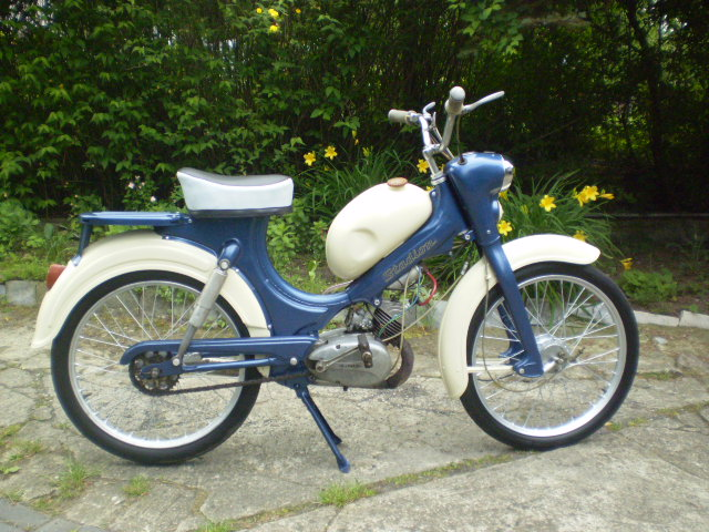 Moped Stadion S22 Česky: Moped Stadion S22